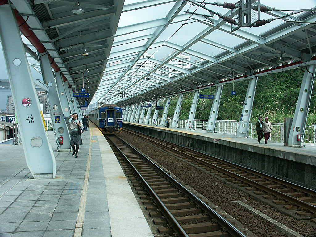 TRA Sike Station Platform.